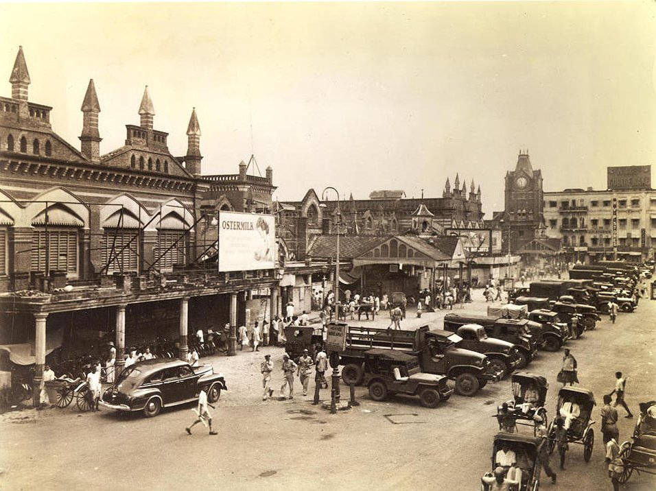 Original description: "Probably the largest market in the East is the New Market. Convering several blocks in the downtown area, the 2,000 stalls offer most anything you could ask for, wartime shortages excepted. In addition to all the items appealing to the local and tourist trade, the market contains giant food departments." The South Asia Section of the Van Pelt Library, University of Pennsylvania recently acquired from a bookdealer a photograph album consisting of 60 photographs of Calcutta taken most likely between 1945-1946. The photographer, Mr. Clyde Waddell, also provided the interesting glosses accompanying each photograph. Several attested copies of this work has emerged including one with a 'title page' held by the Southeastern Louisiana University in Hammond, Louisiana. Mr. Waddell was a military photographer. Many of his captions sound like annotations that would be found in a typical military magazine. The album begins with several general long shots of Calcutta and ends with a picture of dhobi-s (washermen) washing clothes. The text accompanying the last photograph also sounds as if the author intended to finish with that picture of one of the "great mysteries of India." The annotations have been included because of their intrinsic interest not only to the photographs but to a 'typical' American impression of India at this time.